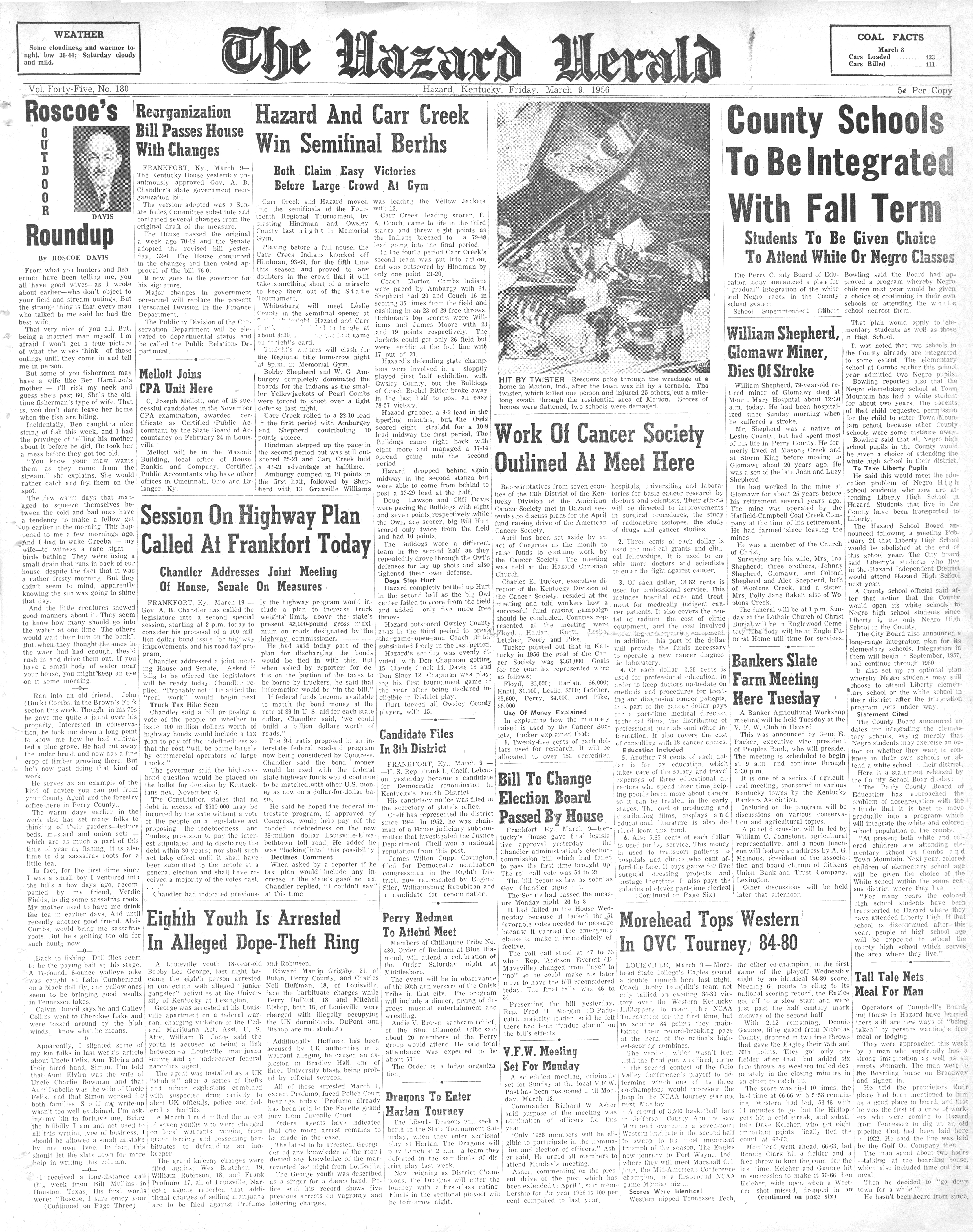 Front page from the March 9th, 1956 edition of The Hazard Herald